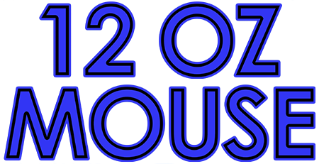 12 oz. Mouse's third season logo